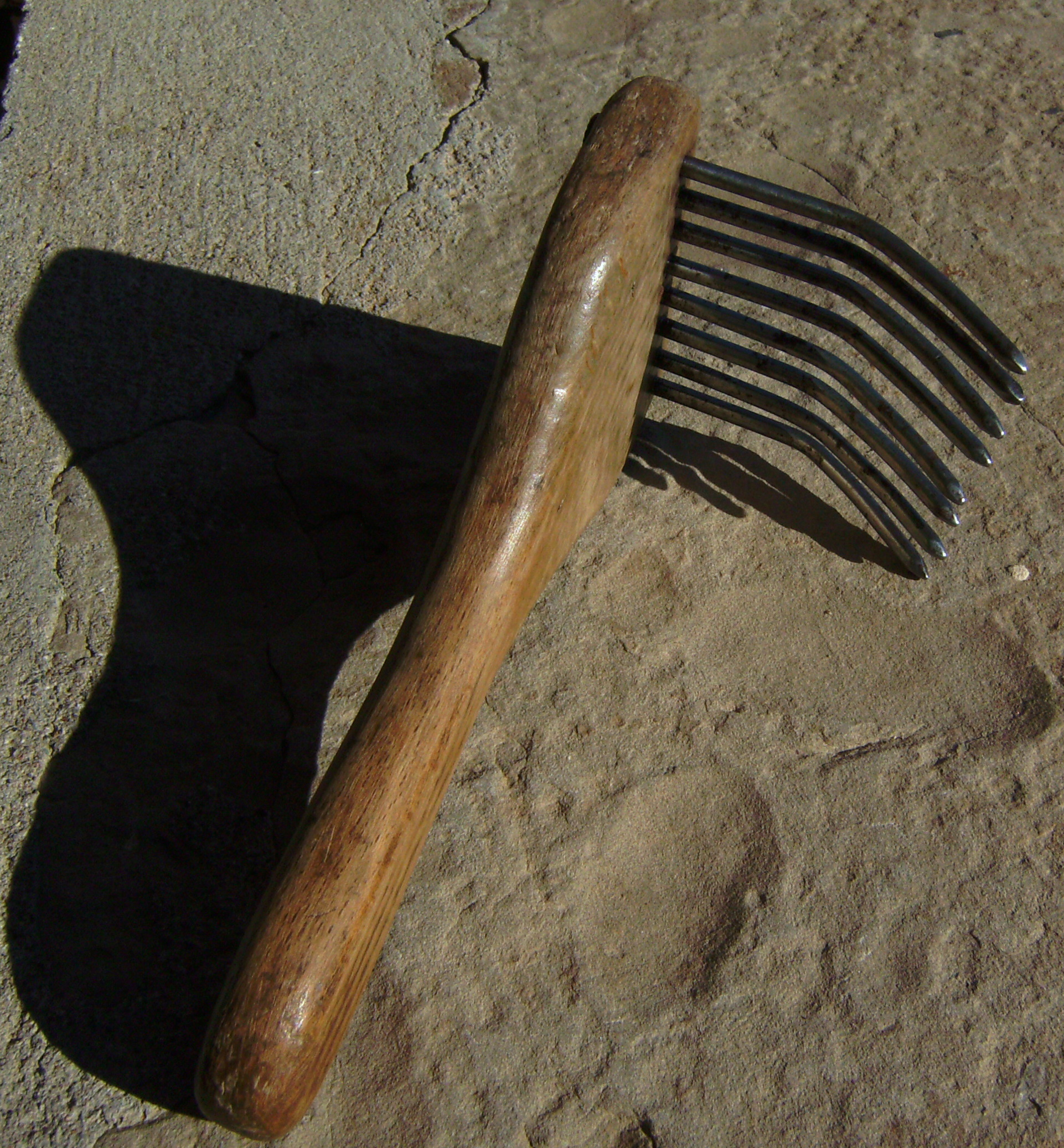 A "comb" for hand olives cropping, Castelltallat, Catalonia